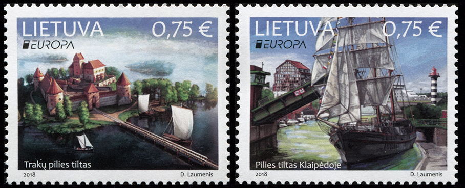 Postage stamps of Lithuania, 2018. Bridges. EUROPA Issue